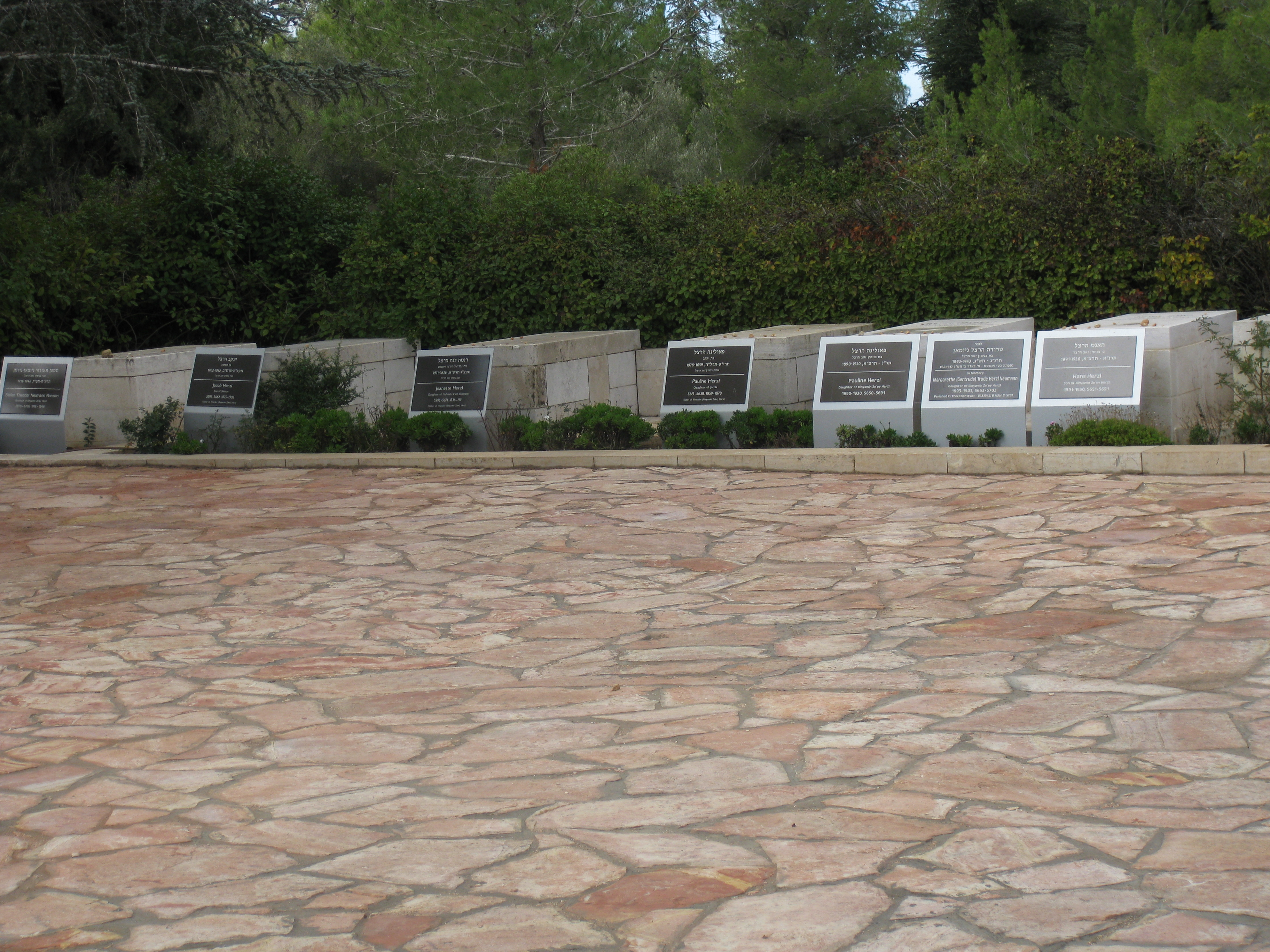 Herzl's Family Graves